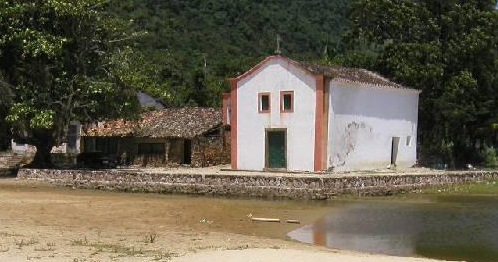 Will Canova